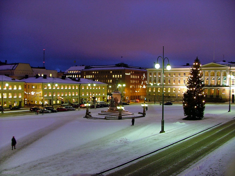 The Senate Square in Helsinki, Finland. The Neoclassical building on the right is the main building of the University of Helsinki. Photographed at dawn (about 8.40 am) on December 22, 2004 — by Jonik.